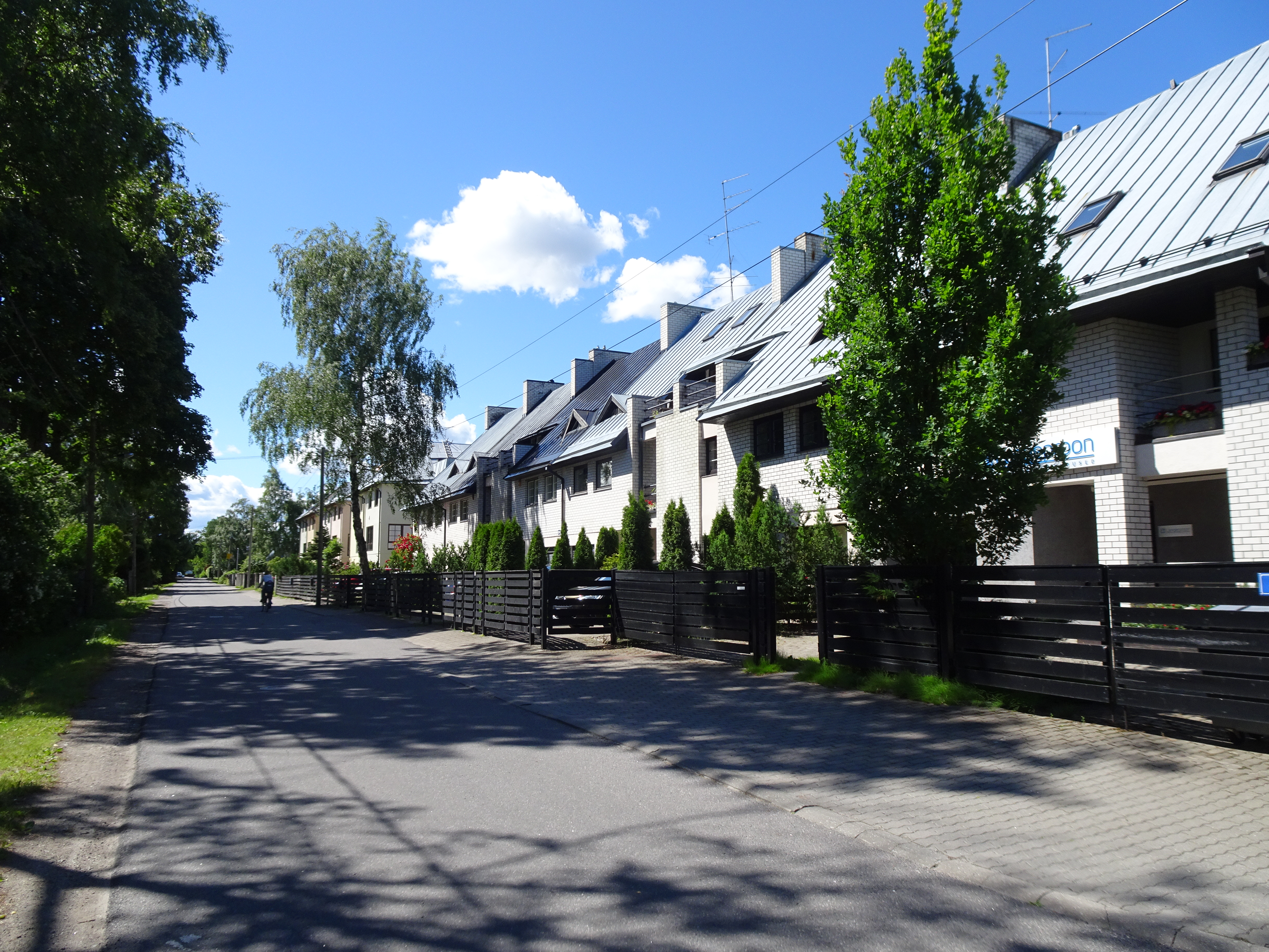 Käo Street in Tallinn, Estonia